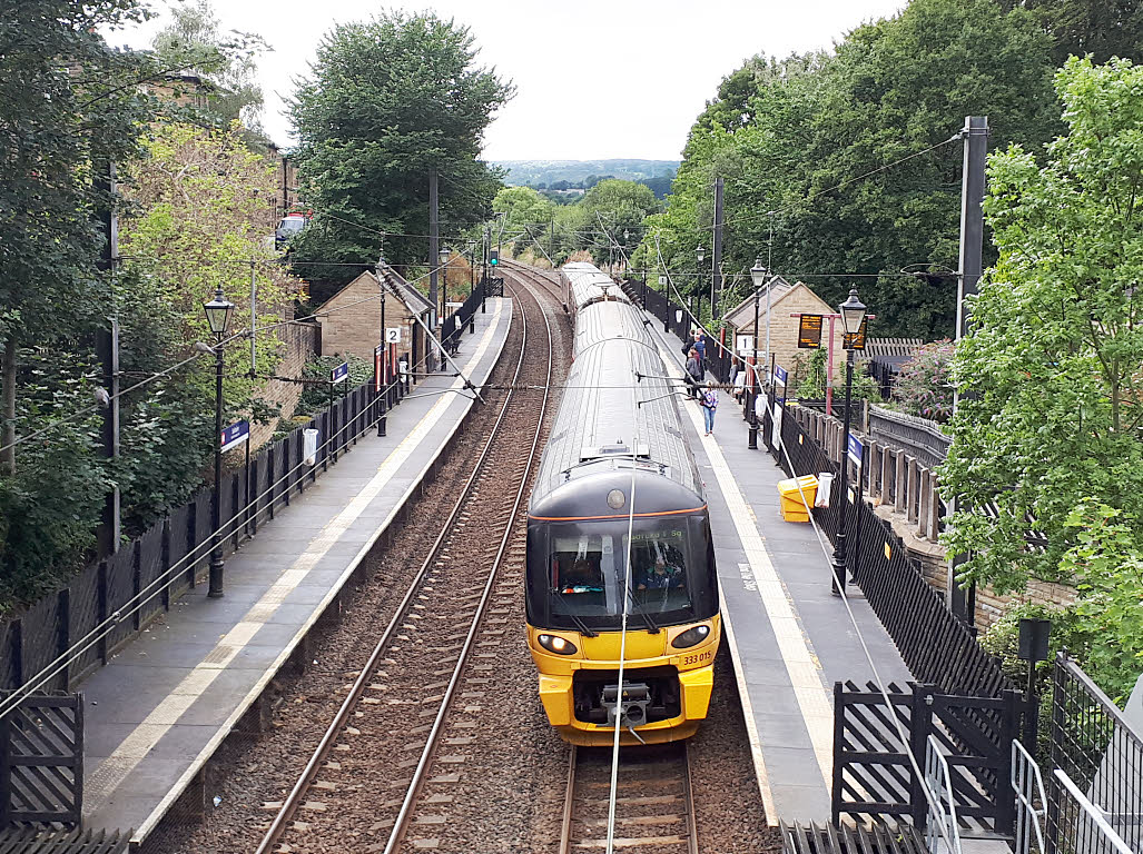 Saltaire railway station